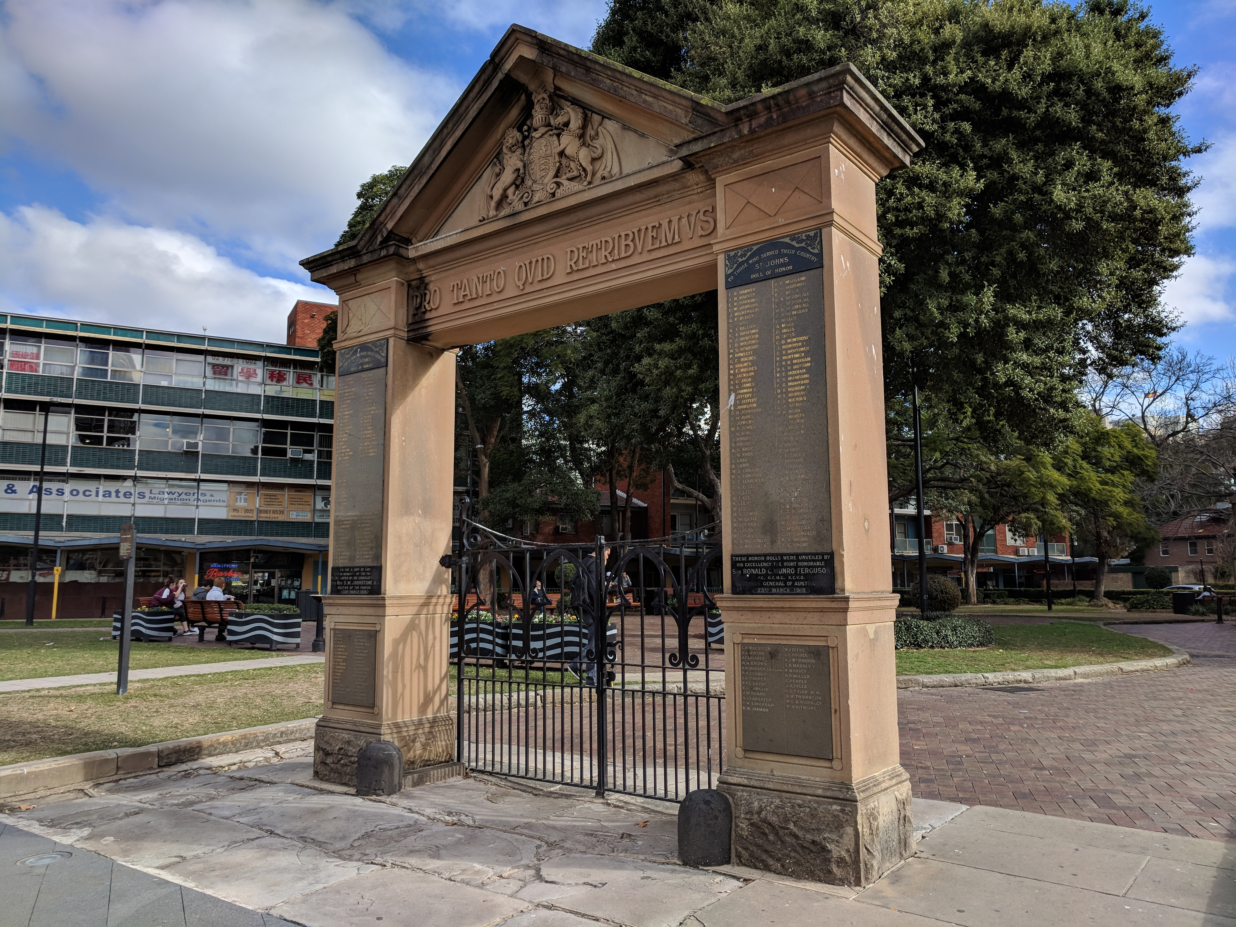 The gate of St Johns Cathedral in Parramatta. It includes a roll of honour for members of the congregation who served in the military during World War I.